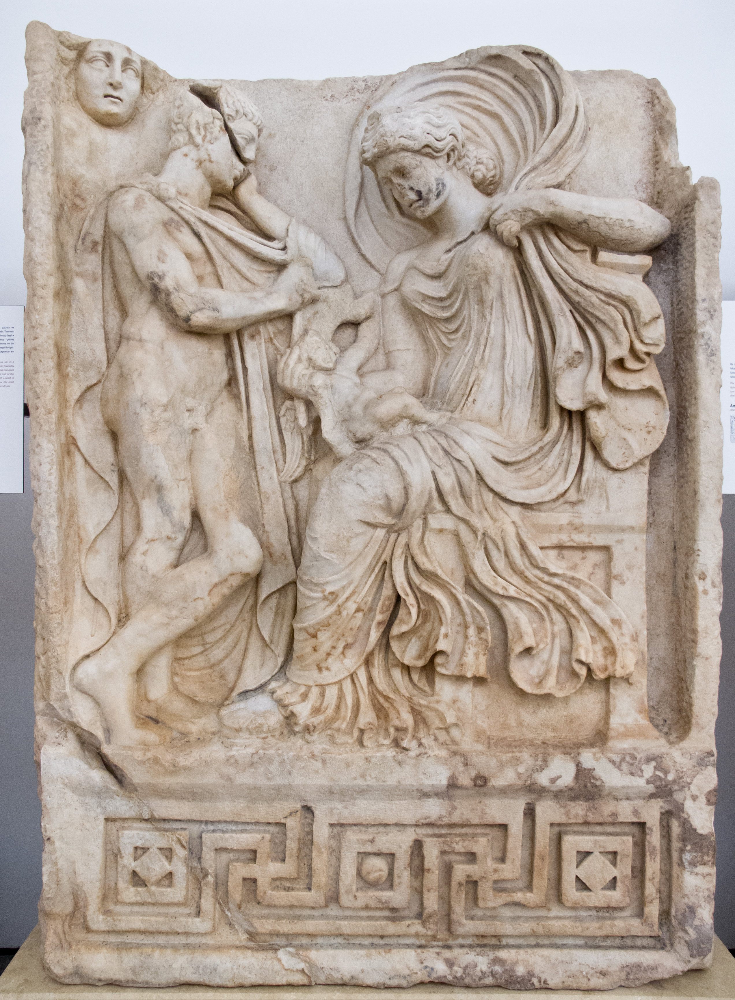 Anchises and Aphrodite. The Trojan shepherd Anchises gazes at the seated Aphrodite, his over for one night on Mount Ida. She holds a small Eros on her lap: this is an erotic encounter. The head of Selene (Moon) appears above the mountain rocks: she indicates night-time. It was from this union that Aineas was born (Museum of Aphrodisias, in modern-day Turkey).